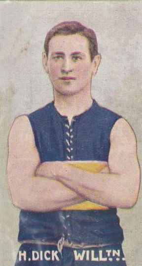 Cigarette card of Horrie Dick from the Sniders & Abrahams 1906 series